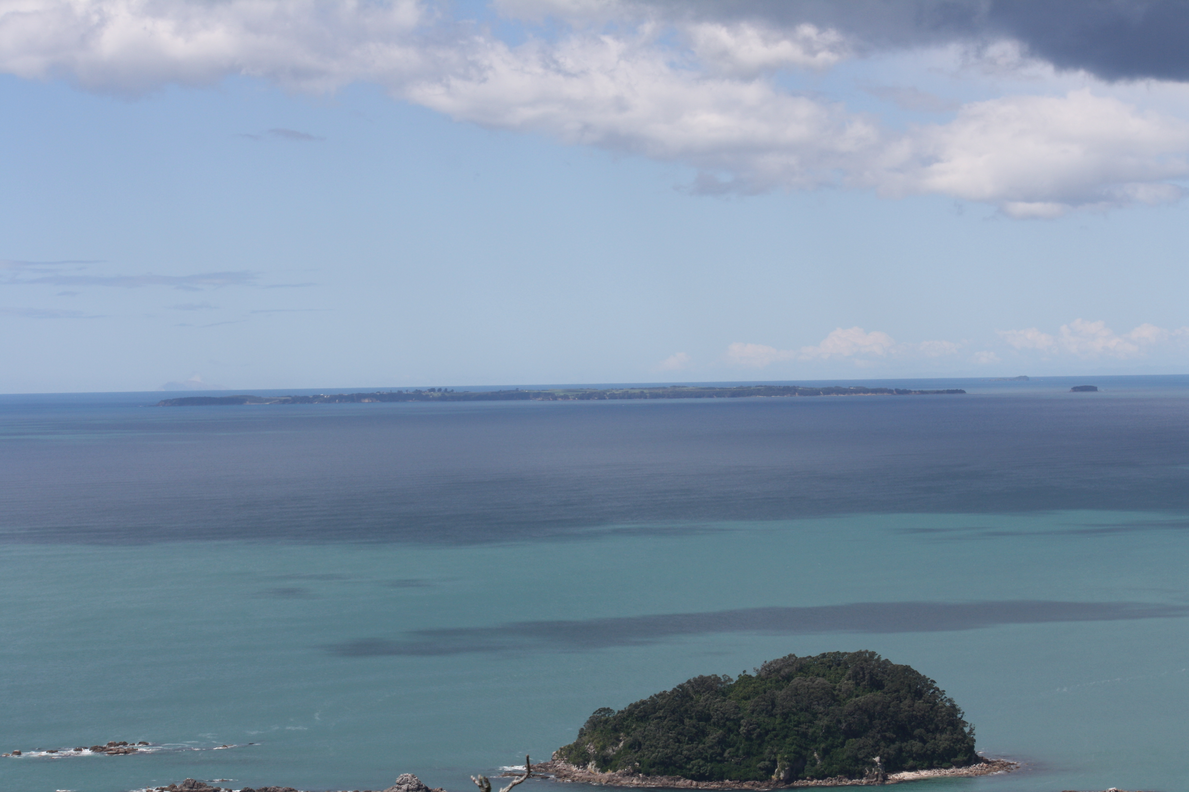 Motiti Island on the horizon as seen from Mauao (Mount Maunganui).